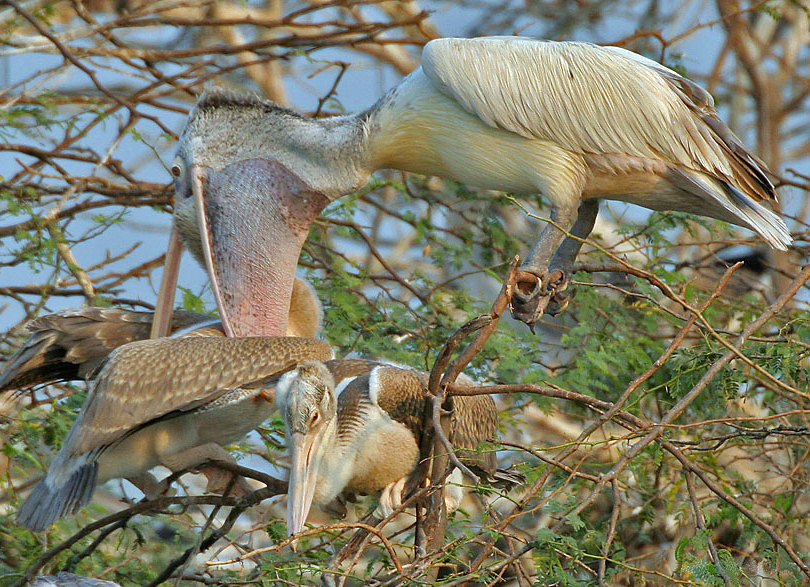 A Spot-billed Pelican with two juveniles at Garapadu, Andhra Pradesh, India. One of the juveniles is feeding by putting its beak down its parents throat.